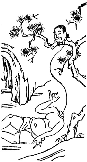 Hitōban (飛頭蛮, a vicious human-like monster whose head detaches from its body) from the Wakan Sansai Zue (和漢三才図会)